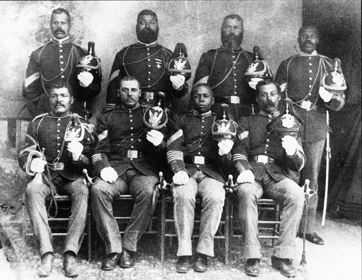 Photograph taken at Fort Robinson, Nebraska, of non-commissioned officers from the United States Army's 9th Cavalry Regiment. Standing, left to right: Sergeant James Wilson, I Troop; First Sergeant David Badie, B Troop; Sergeant Thomas Shaw, K Troop; First Sergeant Nathan Fletcher, F Troop. Seated, left to right: Chief Trumpeter Stephen Taylor; Sergeant Edward McKenzie, I Troop; Sergeant Robert Burley, D Troop; Sergeant Zekiel Sykes, B Troop.